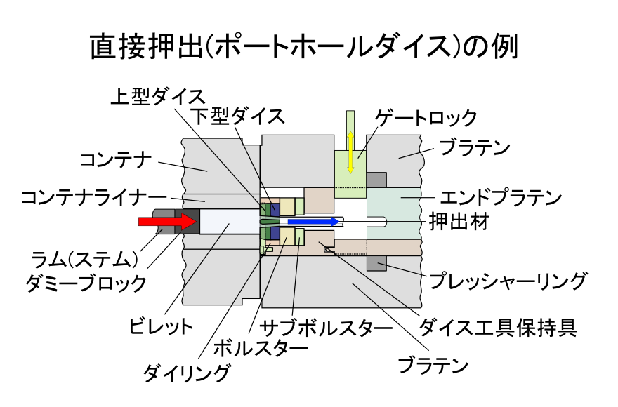 Metal Extrusion (model of Porthole Dice) 1 J.PNG